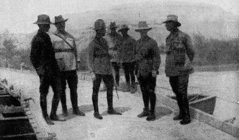 A conference at the Jordan River between British Empire officers: Meldrum, Ryrie, Chauvel, Chaytor, and Cox, 1918